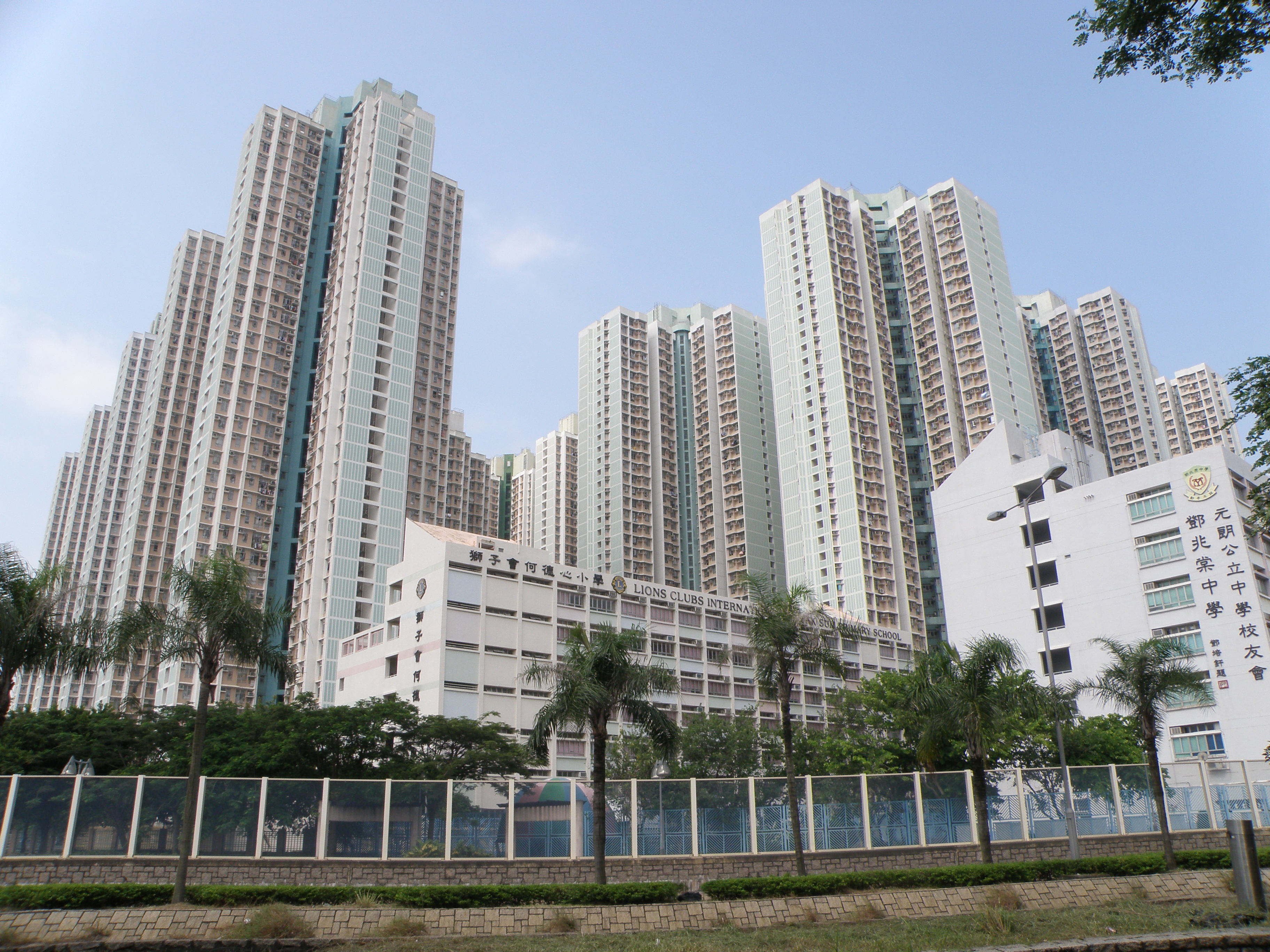 Tin Shing Court in Tin Shui Wai, Hong Kong.